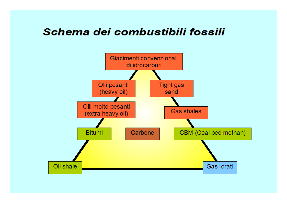 fossils fuels